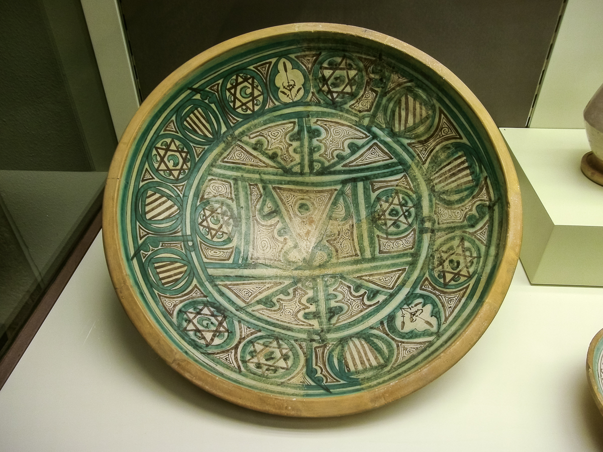 MUSEO PROVINCIAL DE TERUEL Interior 25052013 124749 00023.jpg